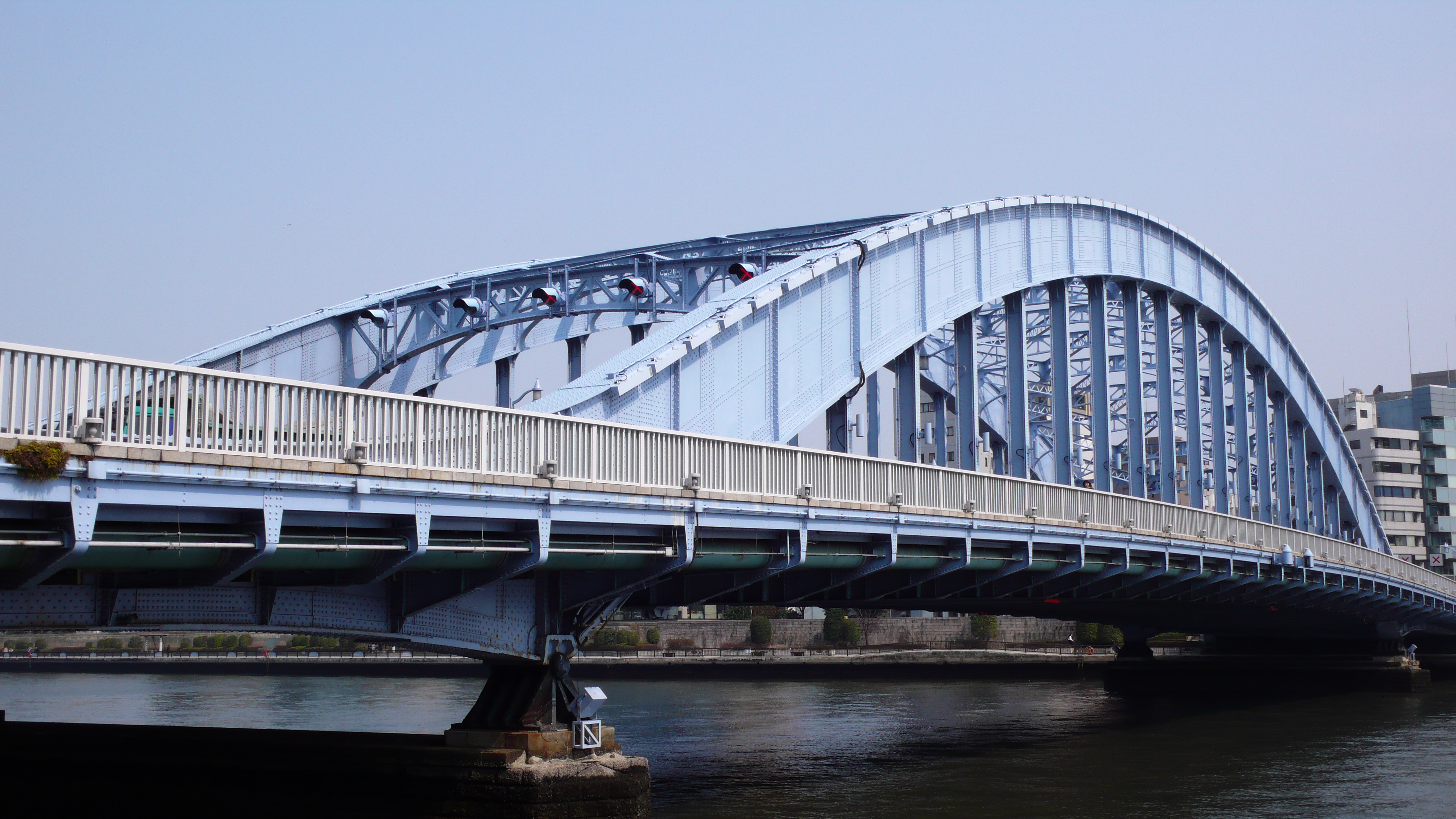 Eitai-bashi Bridge over the Sumida River